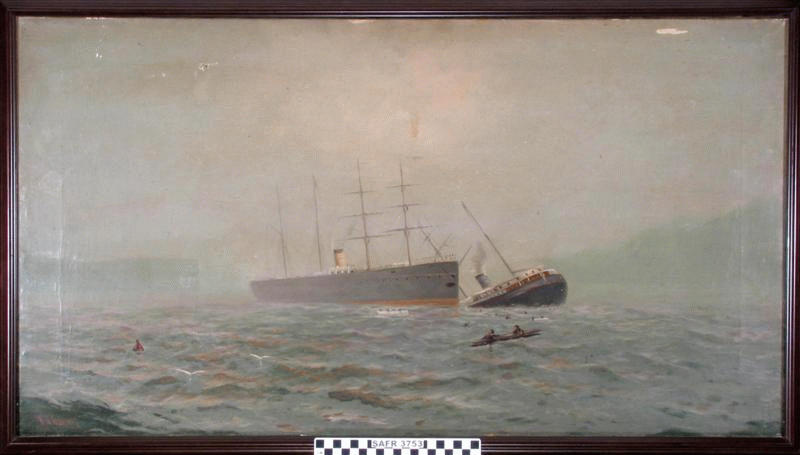 Painting of the collision of the Oceanic and the City of Chester, near Fort Point and the Golden Gate in San Francisco Bay, 1888. Signed "Gilbert" by Robert Gilbert, the artist. oil on canvasmedium QS:P186,Q296955;P186,Q4259259,P518,Q861259